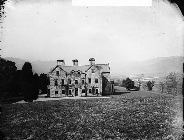 1 negative : glass, wet collodion, b&w ; 16.5 x 21.5 cm.